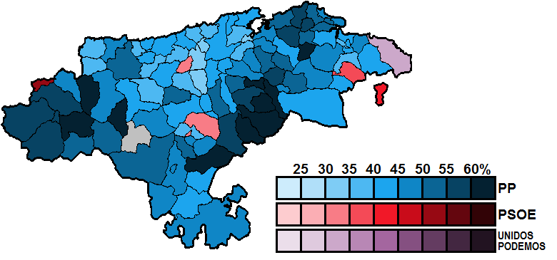 Most-voted party in Cantabria municipalities, showing vote share obtained, in the Spanish general election, 2016.